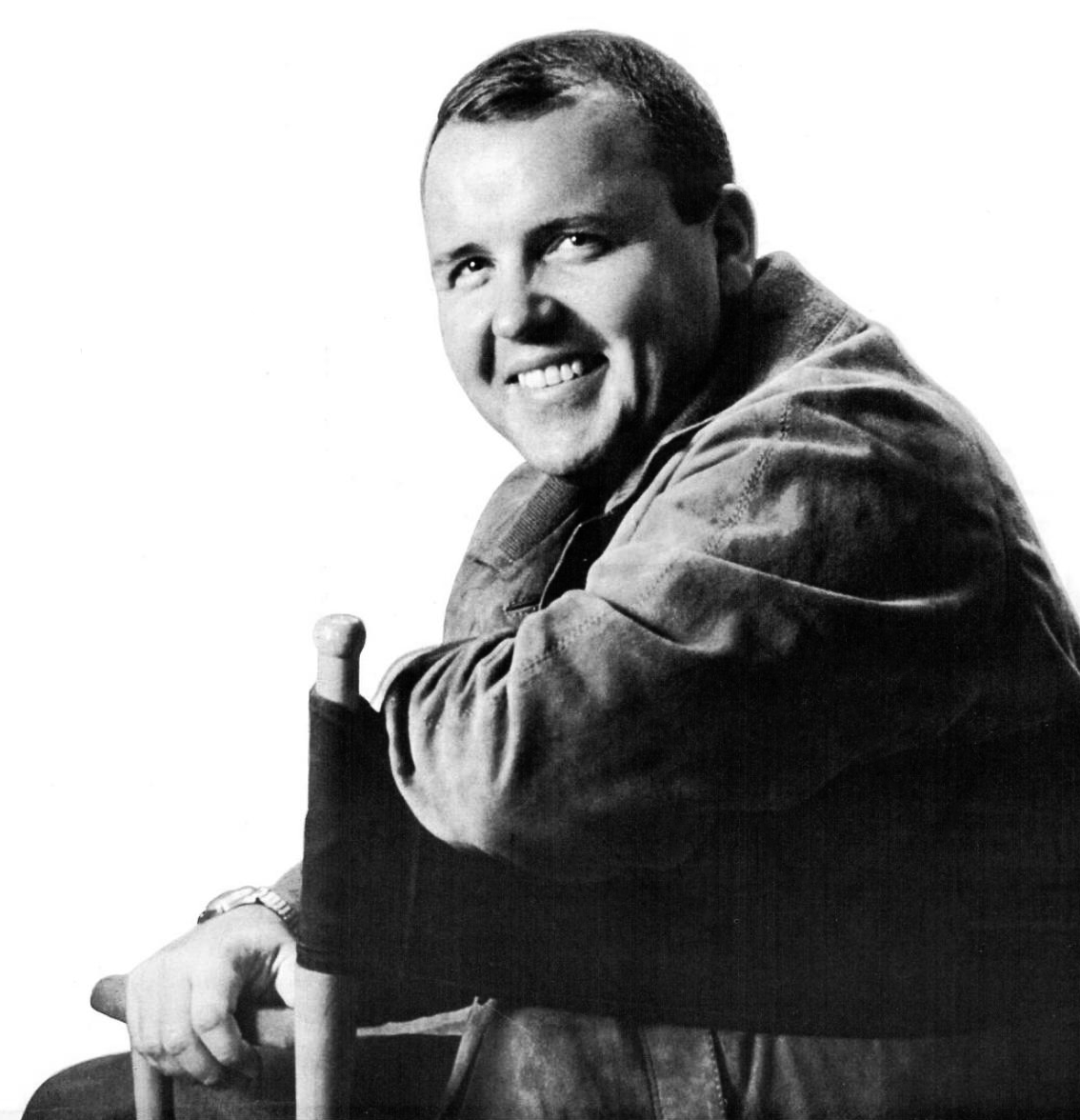 Trade ad for Glenn Yarbrough's single "It's Gonna Be Fine".To better adapt it to his respective Wikipedia article, the ad was cropped and cleaned in a graphics editing program. The original can be viewed at the source below.